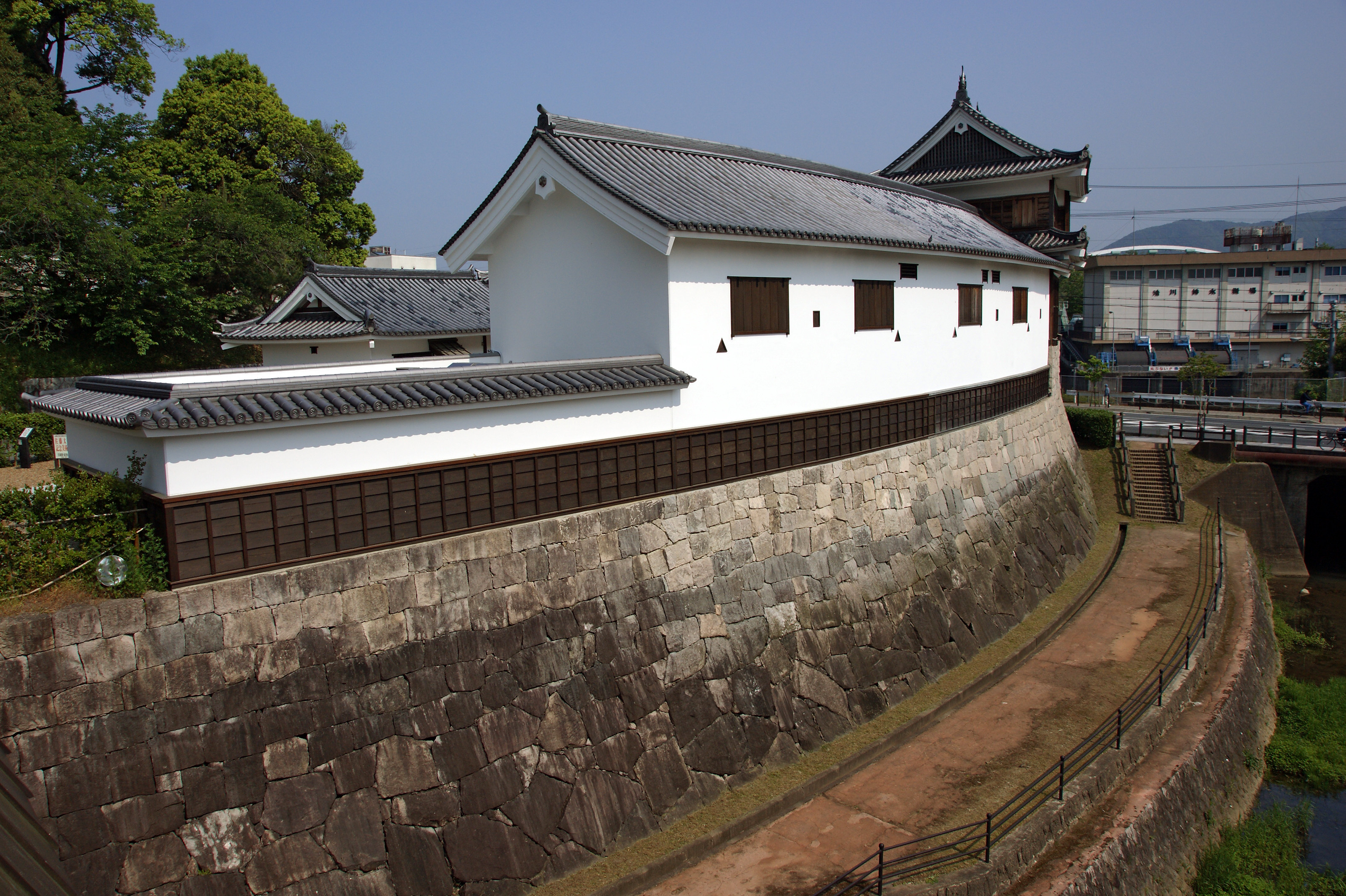 Taisei Sato Memorial Art Museum in Fukuchiyama, Kyoto prefecture, Japan